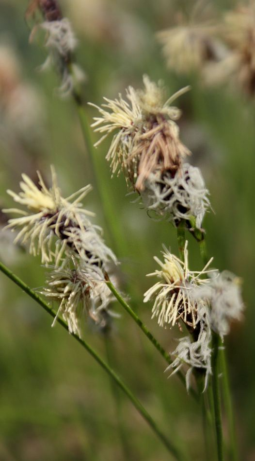 Carex humilis, Brno, CZ Česky: Carex humilis, Brno, CZ